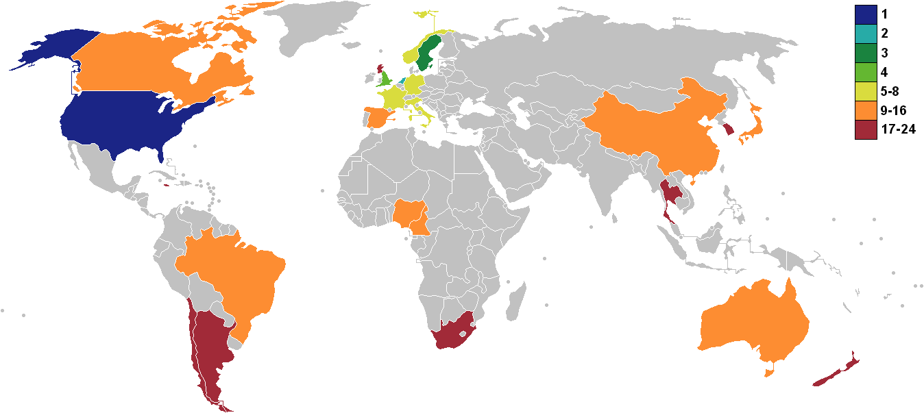 2019 FIFA Women's World Cup, qualified countries and their achievements